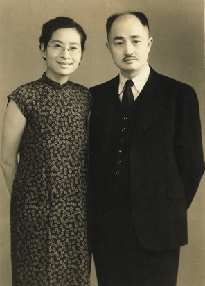 Lei Jieqiong and Yan Jingyao